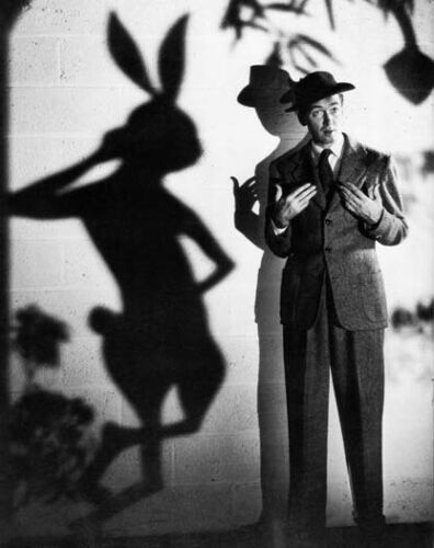 Promo Still of James Stewart in American comedy-drama film Harvey (1950). See also film still. No copyright notice.